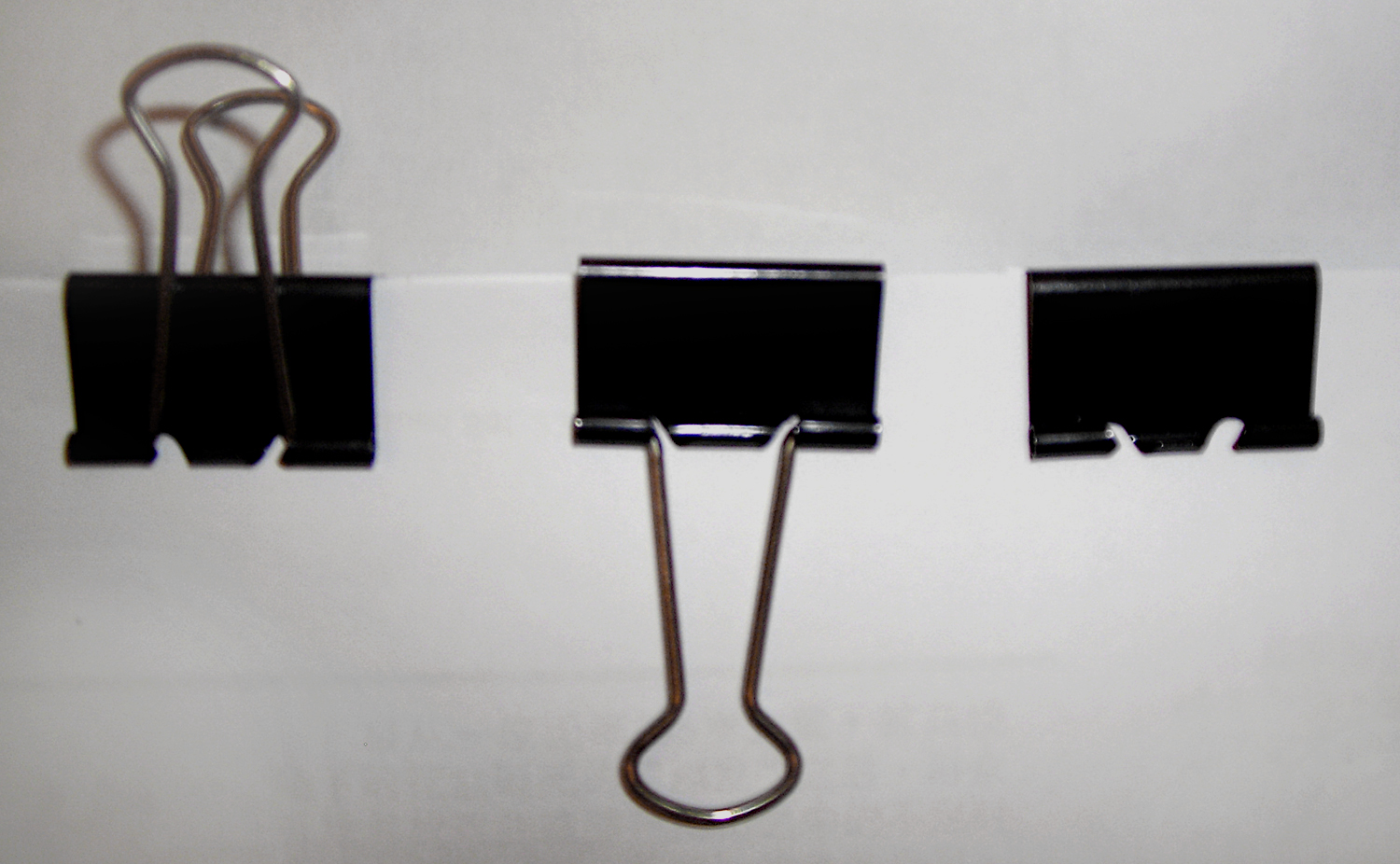 Three binder clips, one with the arms up, one with the arms down, and one with the arms removed